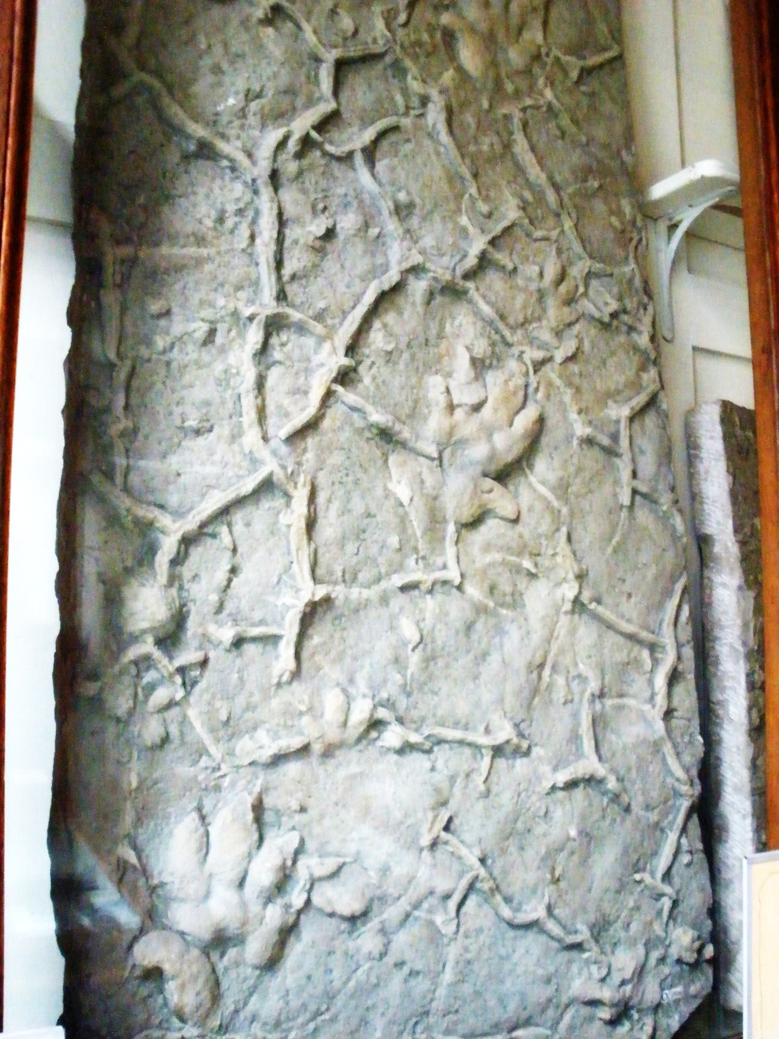 Sandstone slab (lower surface) of Early Triassic (Late Olenekian) age with casts of mudcracks and Chirotherium barthii, an ichnospecies, on display at Teylers Museum, Haarlem, the Netherlands. This slab (catalogue number: O 1324) belongs to the original material from Hildburghausen, Germany, based on which this ichnospecies was first described scientifically in 1835 (first scientific desciption of a tetrapod trace fossil ever).[1] ↑ H. Haubold (2006): Die Saurierfährten Chirotherium barthii Kaup, 1835 - das Typusmaterial aus dem Buntsandstein bei Hildburghausen/Thüringen und das „Chirotherium-Monument“. Veröffentlichungen des Naturhistorischen Museums Schleusingen. 21: 3-31